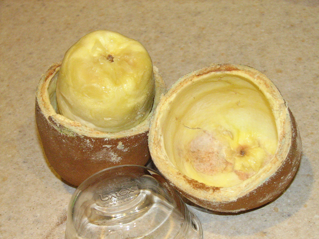 Picture taken by Christopher Hind